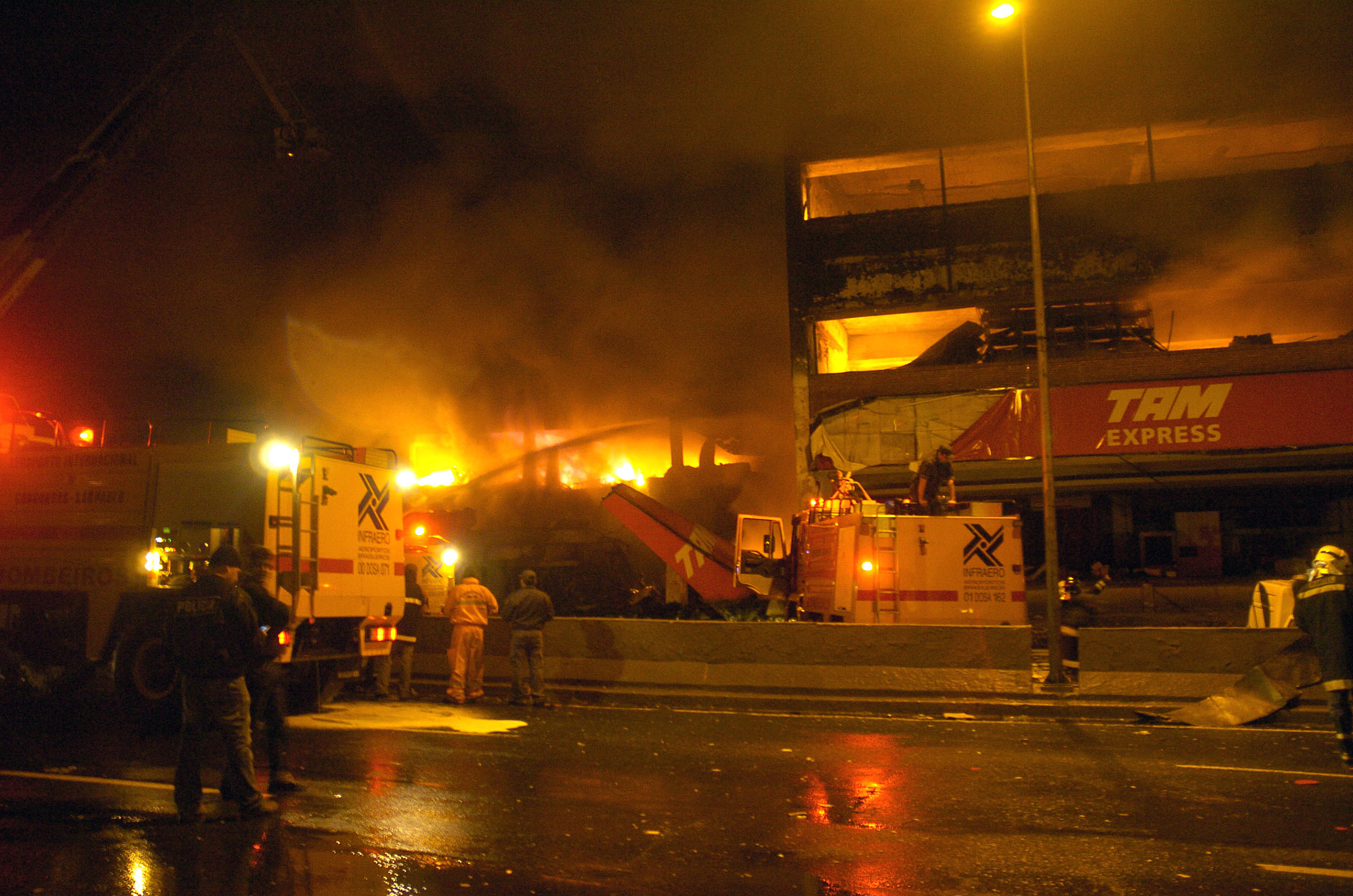 Firefighters try to extinguish a fire in a warehouse belonging to TAM where the accident involving one of the company's own aircraft (Flight JJ3054) occurred. The aircraft crashed and exploded on the build after an unsuccessful land at the Congonhas airport.